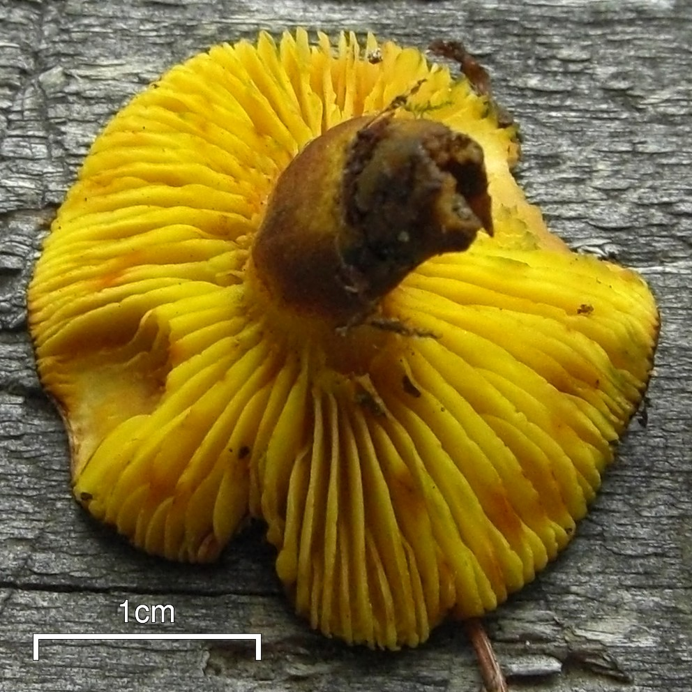 View of the "gills" of the bolete mushroom Phylloporus rhodoxanthus (Schwein.) Bres. Specimen found in Clearwater Lake, Wells Gray Provincial Park, British Columbia, Canada.